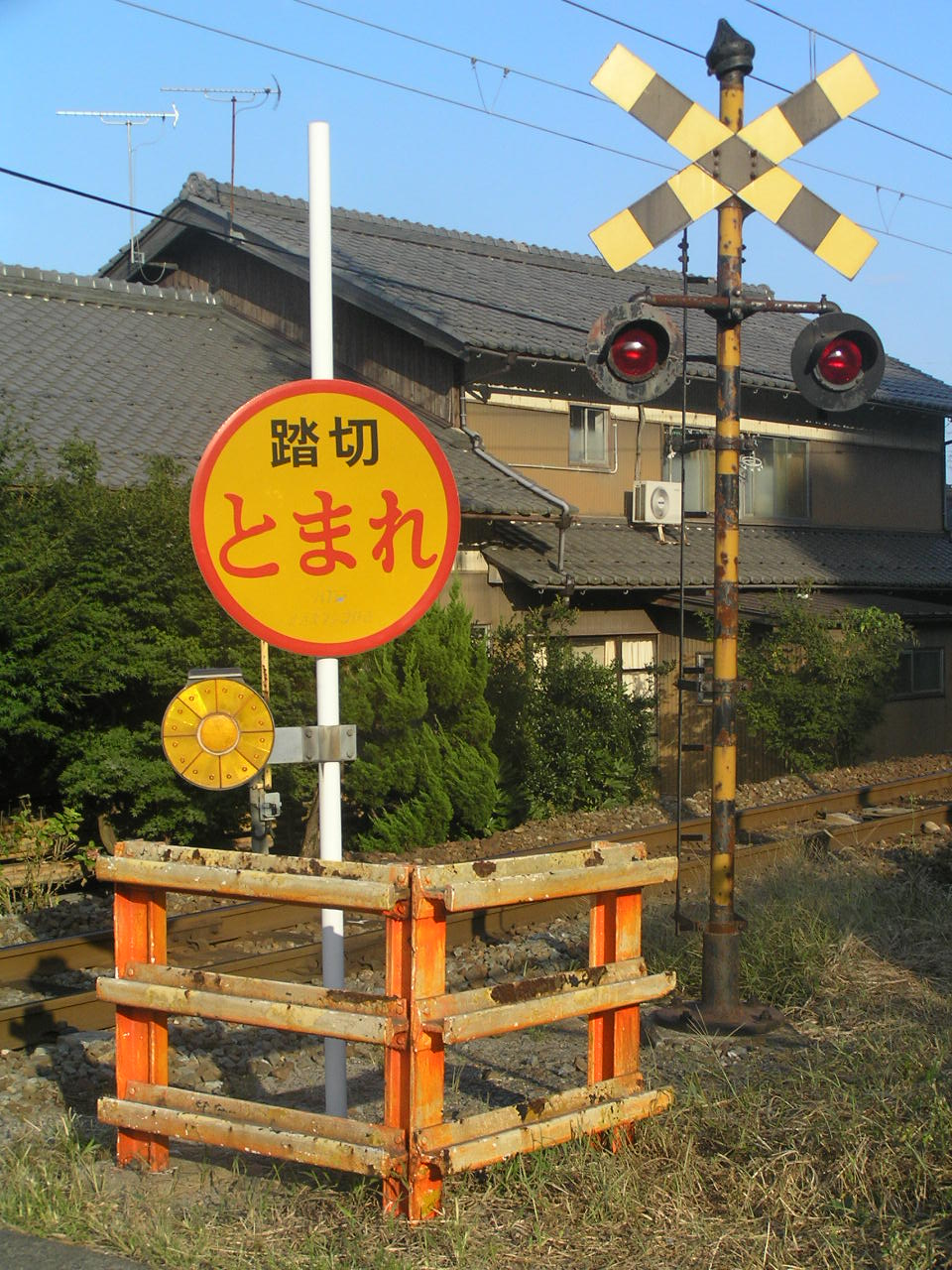 Level crossing、